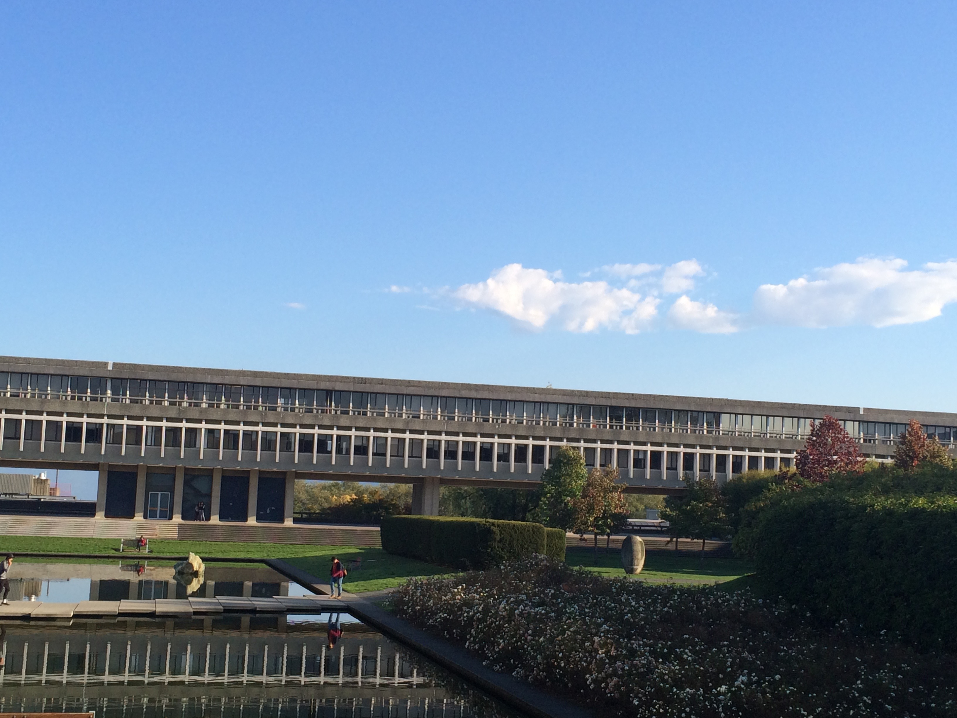 Simon Fraser University, 2016